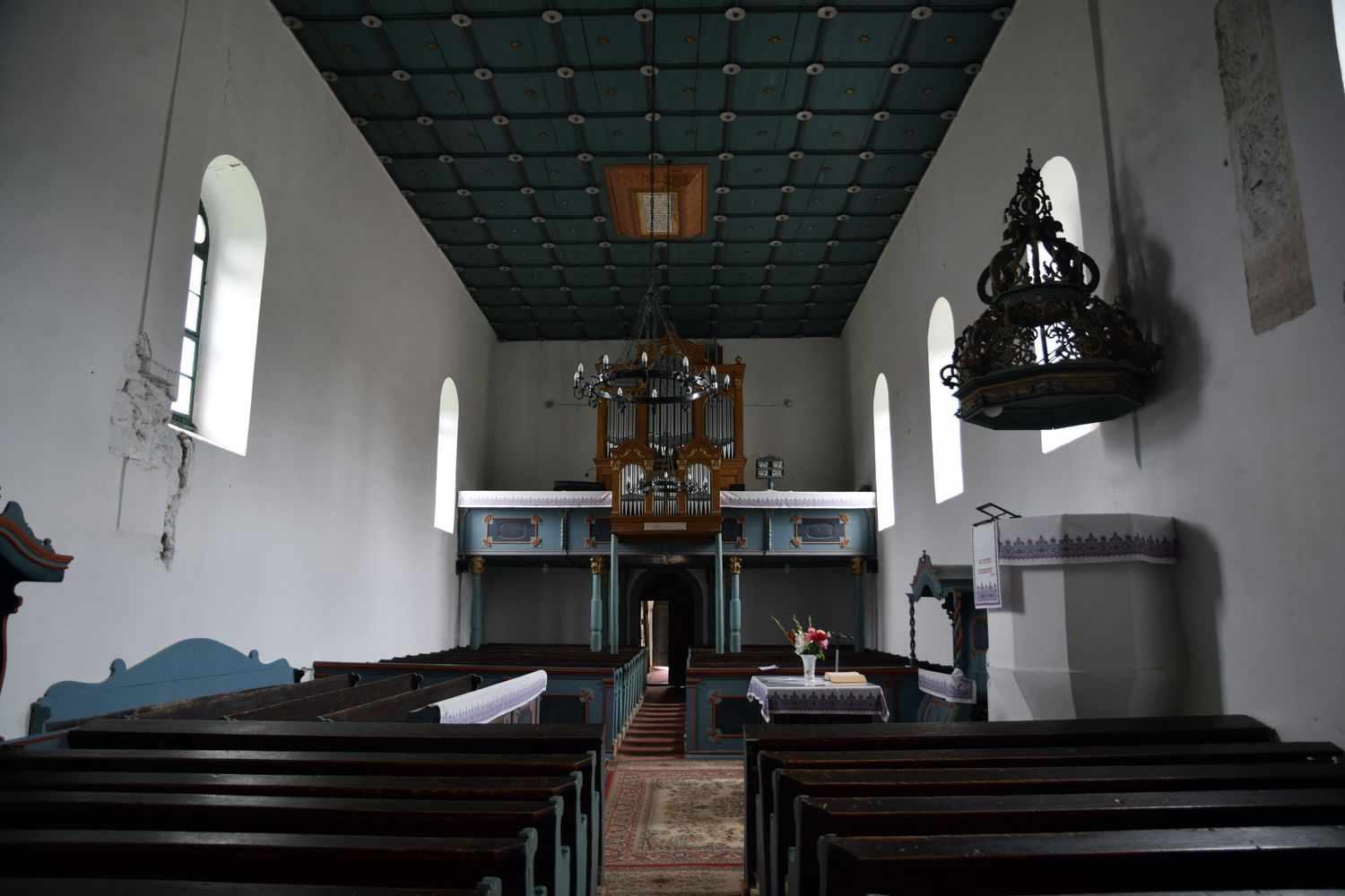 Tarpa, calvinist church